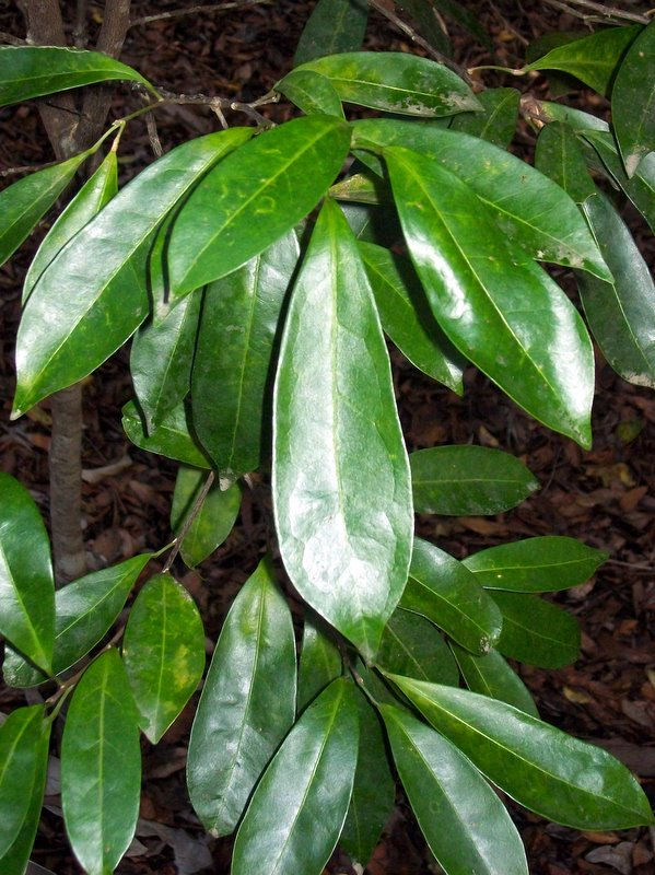 Fontainea australis, leaves. North Coast Regional Botanic Gardens, Coffs Harbour